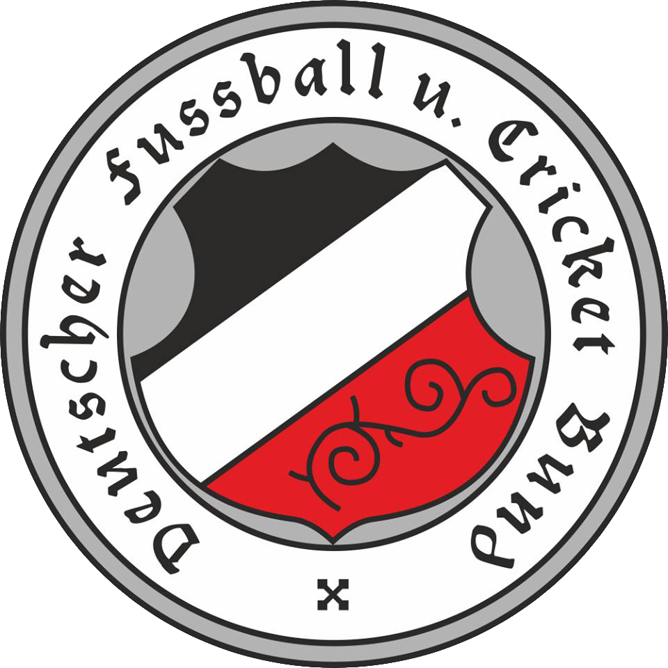 Logo of former german football association "Deutscher Fußball- und Cricket Bund" (DFuCB) (1891-1902)